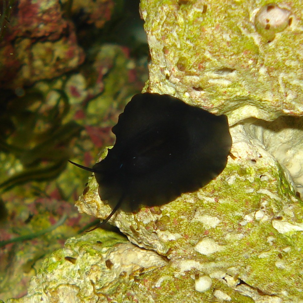 black marine Ducksbill Limpet, Elephant Slug, Shield Slug (Scutus sp.)